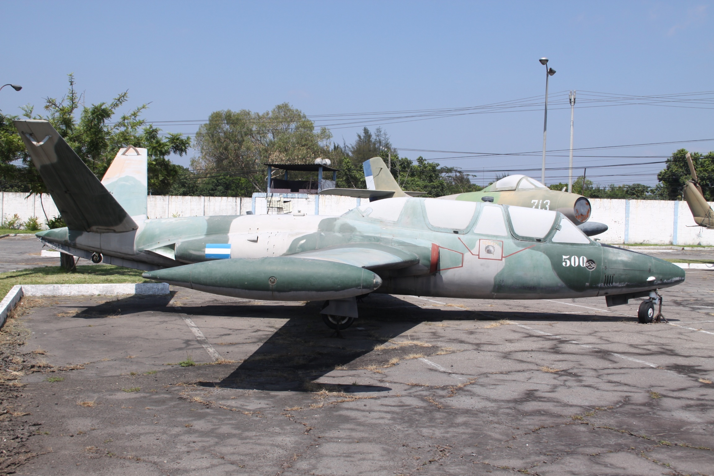 At Ilopango International